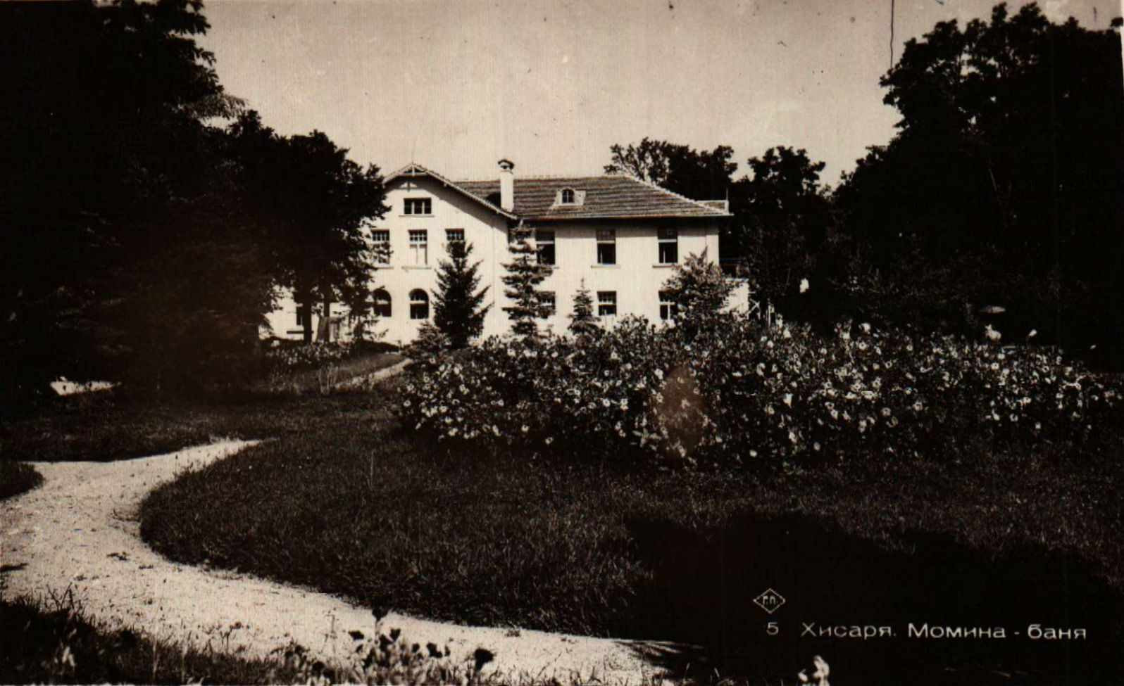 Post card to Pavel Deliradev from Hisarya, Bulgaria.